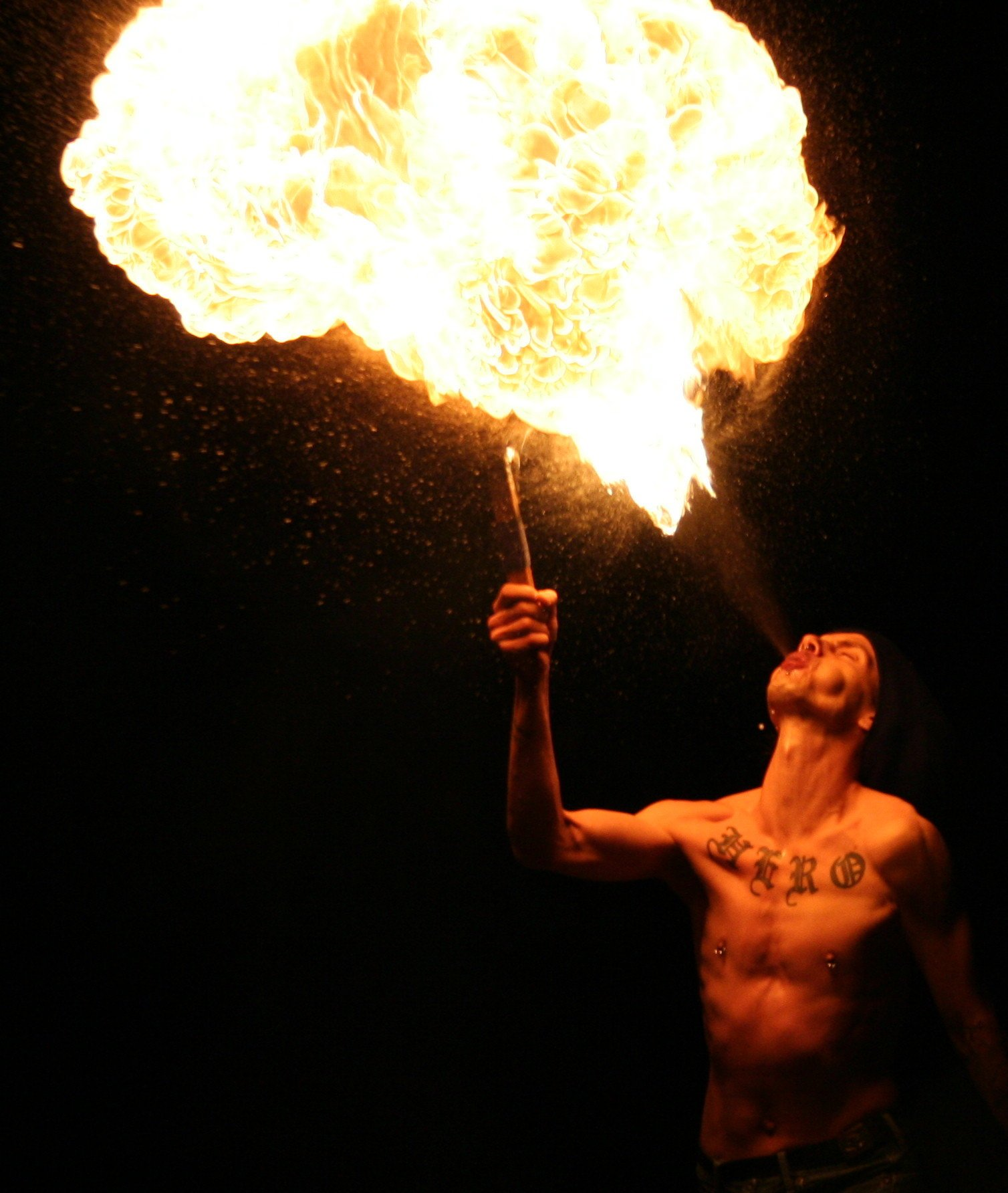 fire breathing. photo made by collien (i have her permission)